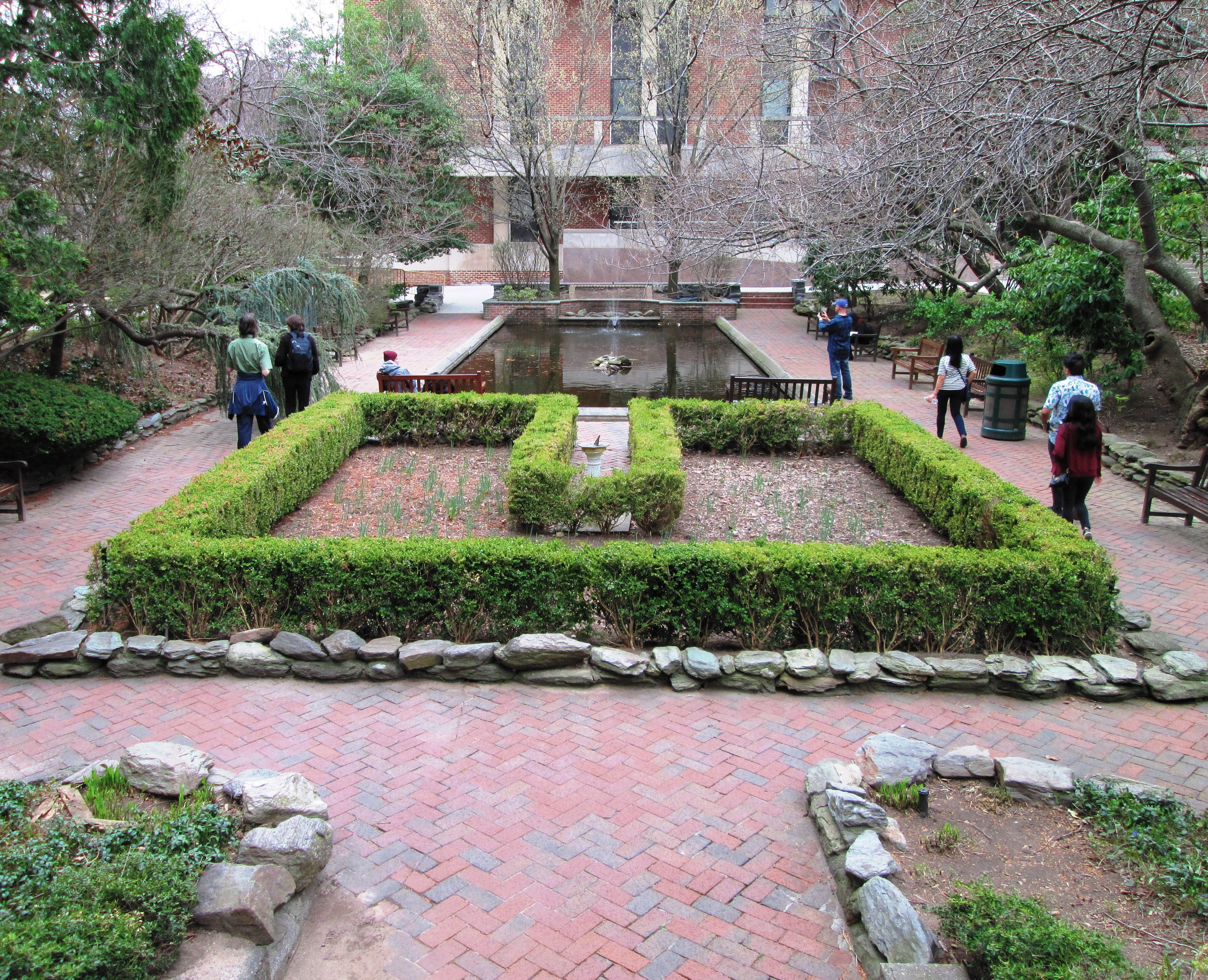 Brooklyn College is a senior college of the City University of New York, located in the Midwood neighborhood of Brooklyn, New York City. The origin of Brooklyn College occurred in 1910 with the establishment of an extension division of the City College for Teachers. The school then began offer evening classes for first-year male college students in 1917. In 1930 by the New York City Board of Higher Education, the College authorized the combination of the Downtown Brooklyn branches of Hunter College – at that time a women's college – and the City College of New York – a men's college – both of which had established been in 1926. With the merger of these branches, Brooklyn College became the first public coeducational liberal arts college in New York City. The college's 26-acre (110,000 m2) campus is known for its beauty, and is often regarded as "the poor man's Harvard" because of its low tuition and reputation for respectable academics. The master designer of the original Georgian style campus, now known as the "East Quad", was Randolph Evans.